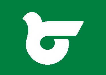 Flag of Tomika Gifu